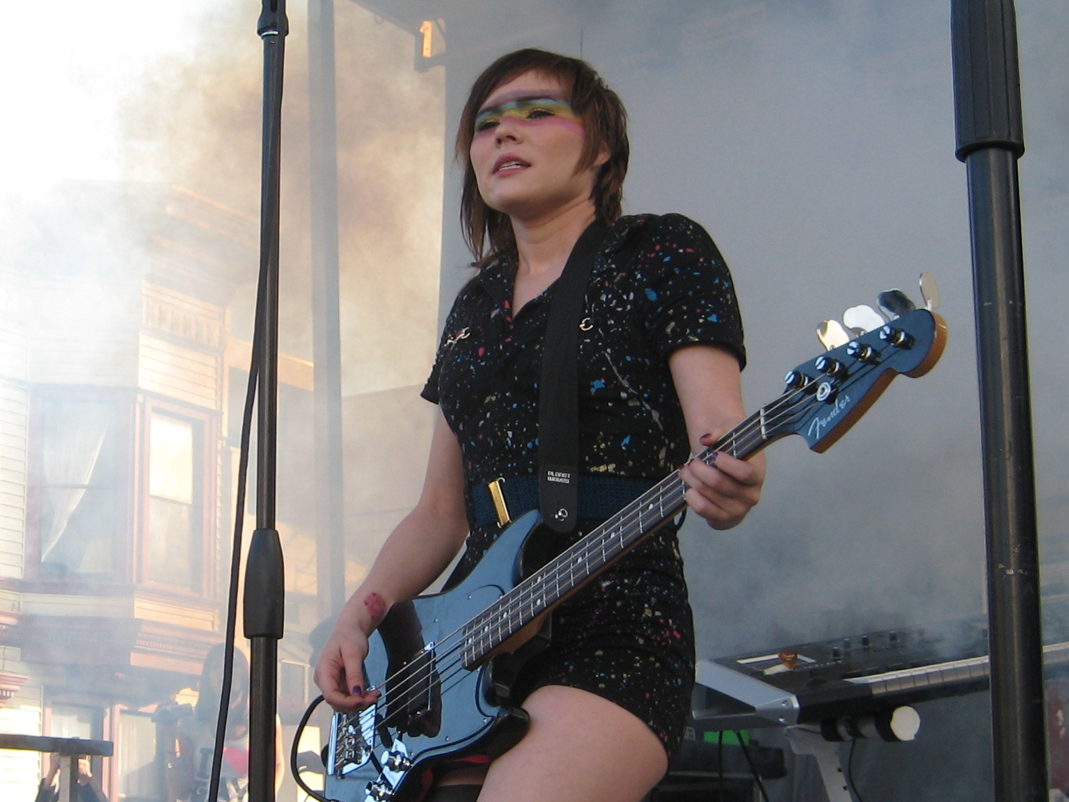 Sisely Treasure performing with her new band Shiny Toy Guns at the Folsom Street Fair in San Francisco,CA (4:22pm 9/28/2008) Taken by Rubeun S. Tan on a Canon SD1000 Digicam. Should be used for Wiki Bio of Sisely Treasure.